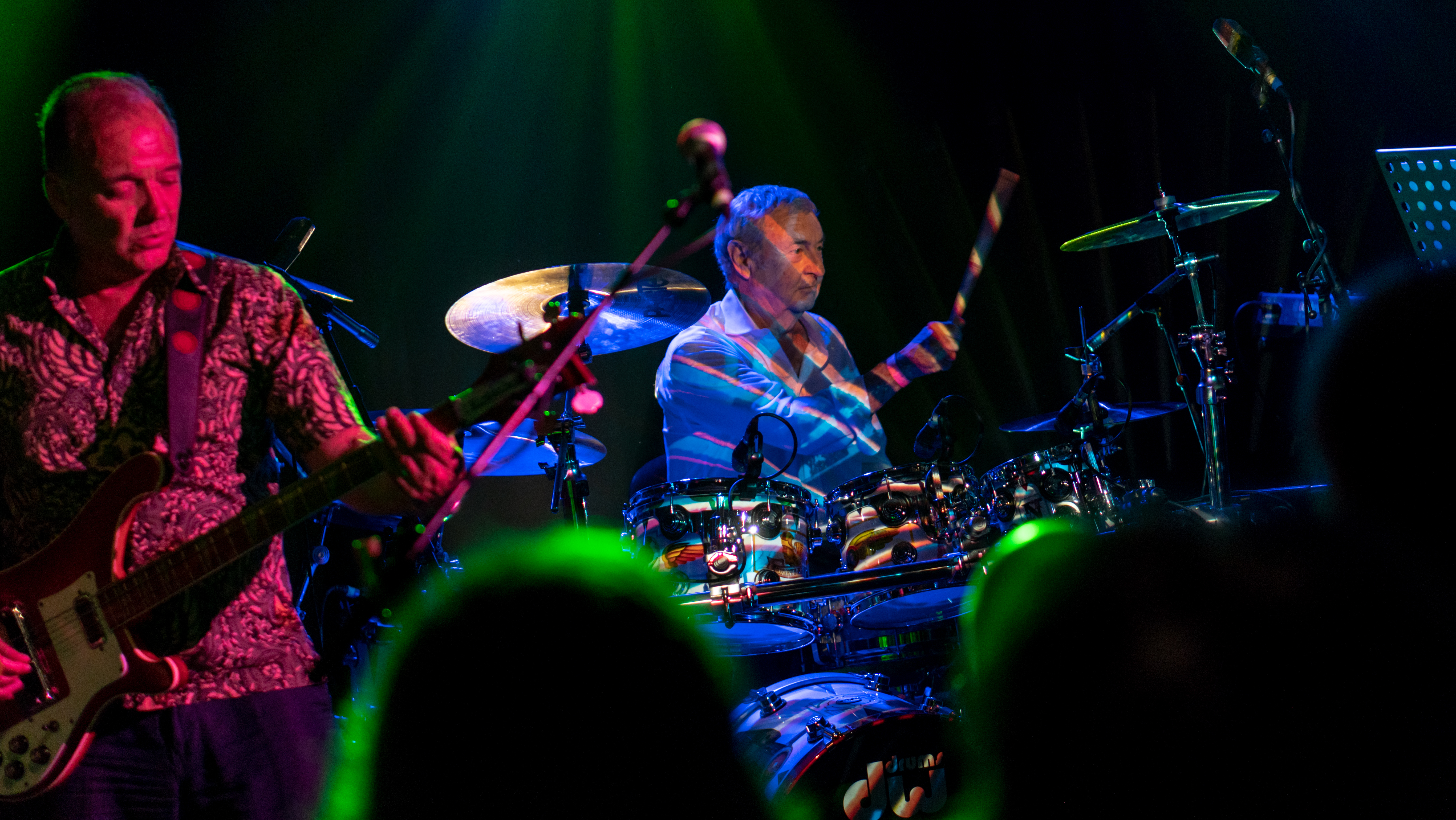 NickMasonDWalls200518-10